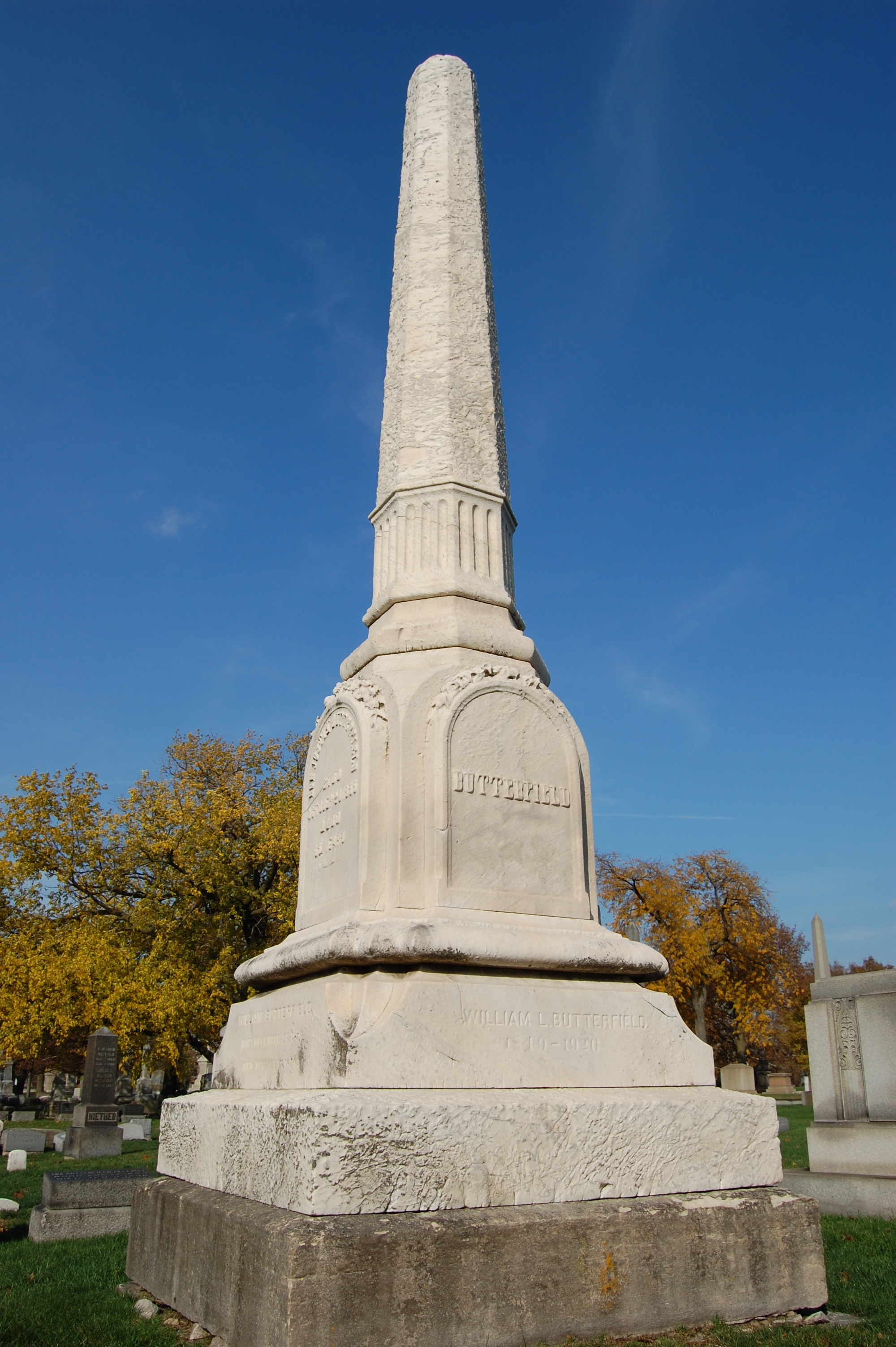 Justin Butterfield tombstone, Graceland Cemetery, Chicago